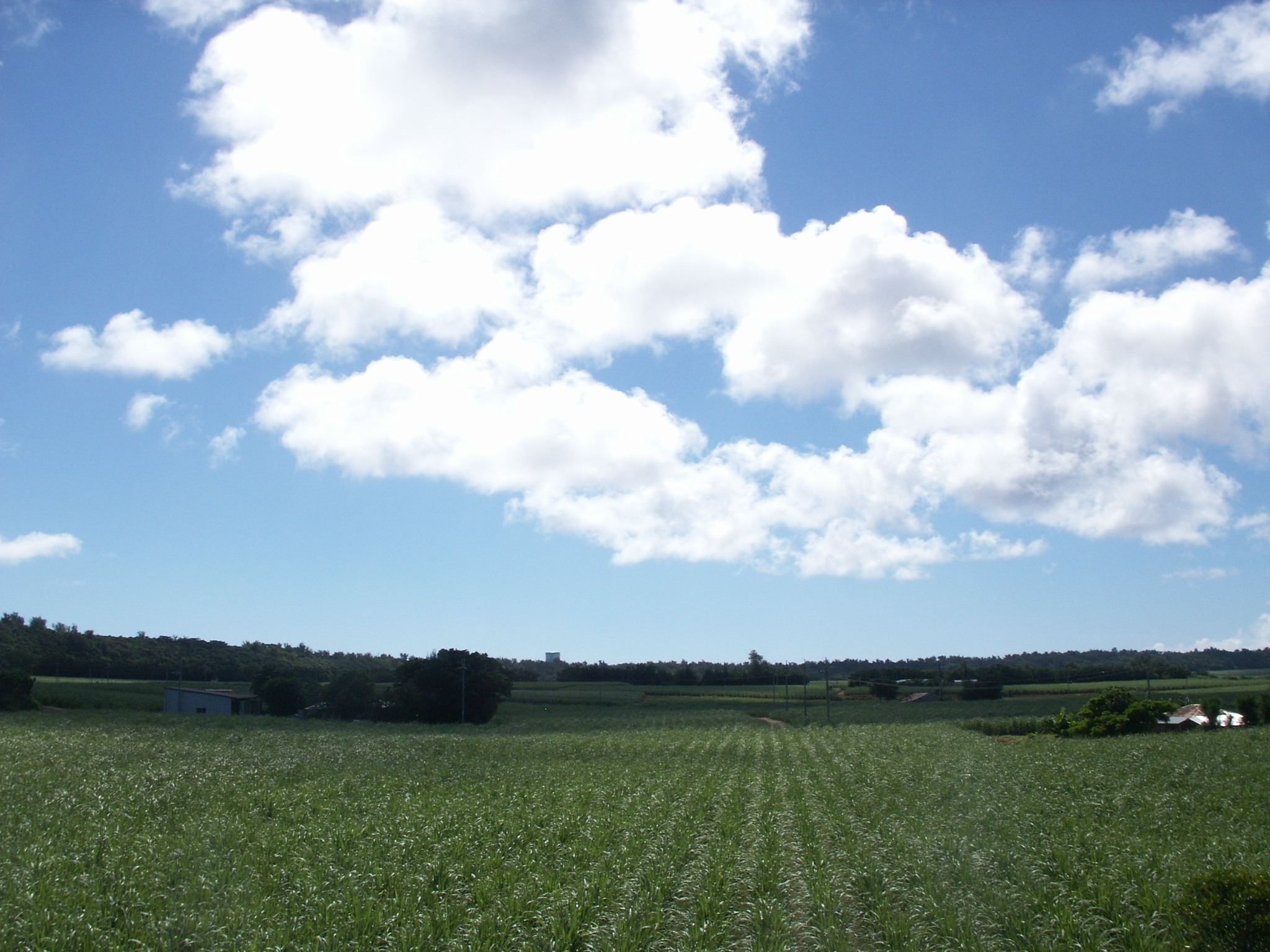 sugar field in Minamidaito Village in Okinawa Prefecture, Japan